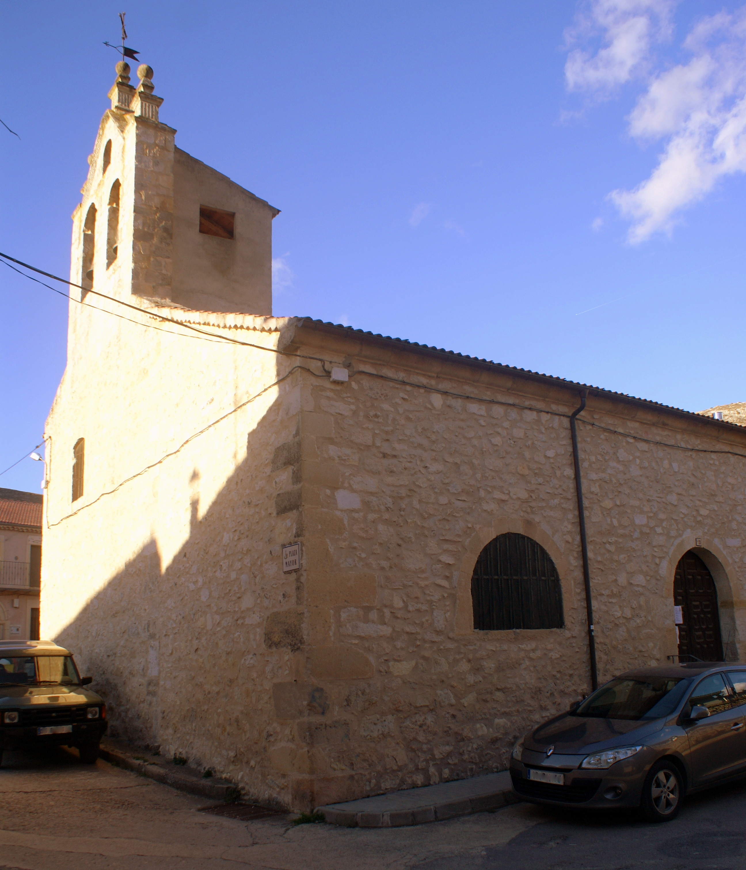 Church of Valle de Tabladillo, Segovia, Spain.